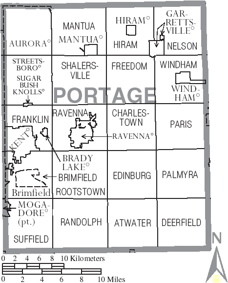 Map of Portage County, Ohio, United States with township and municipal boundaries